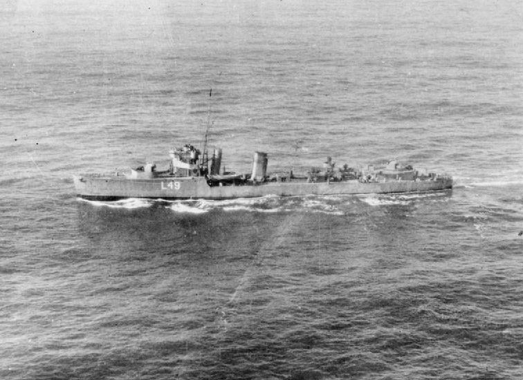 British destroyer HMS WOOLSTON underway as WAIR conversion (WAIR was a conversion of W-class destroyers to anti-aircraft specialisation).